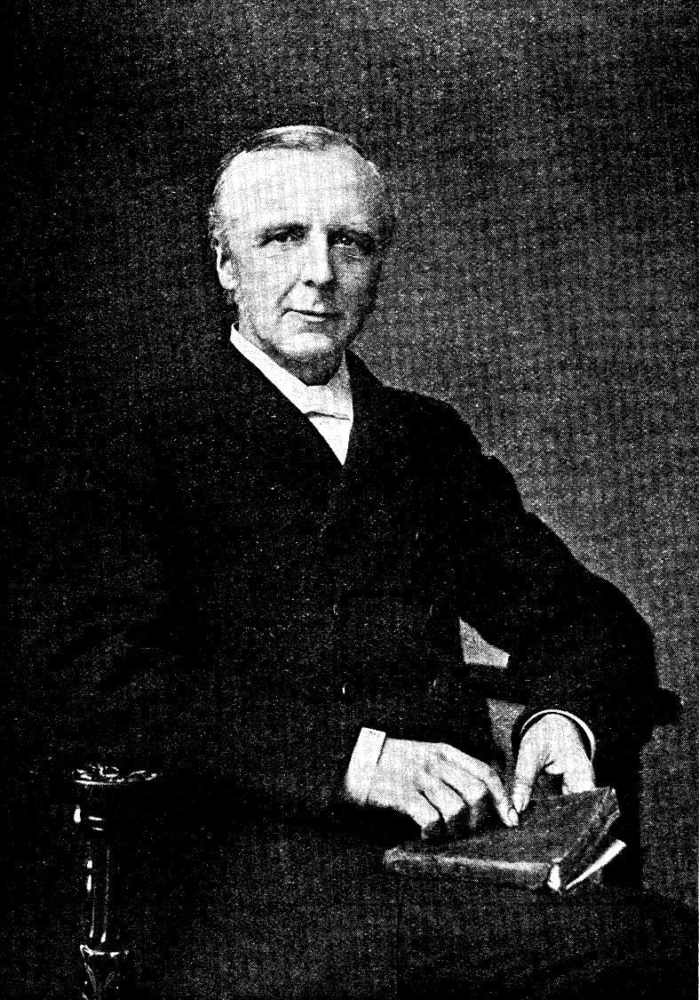 Portrait of Frederick Brotherton Meyer (1847-1929), British Baptist pastor and evangelist